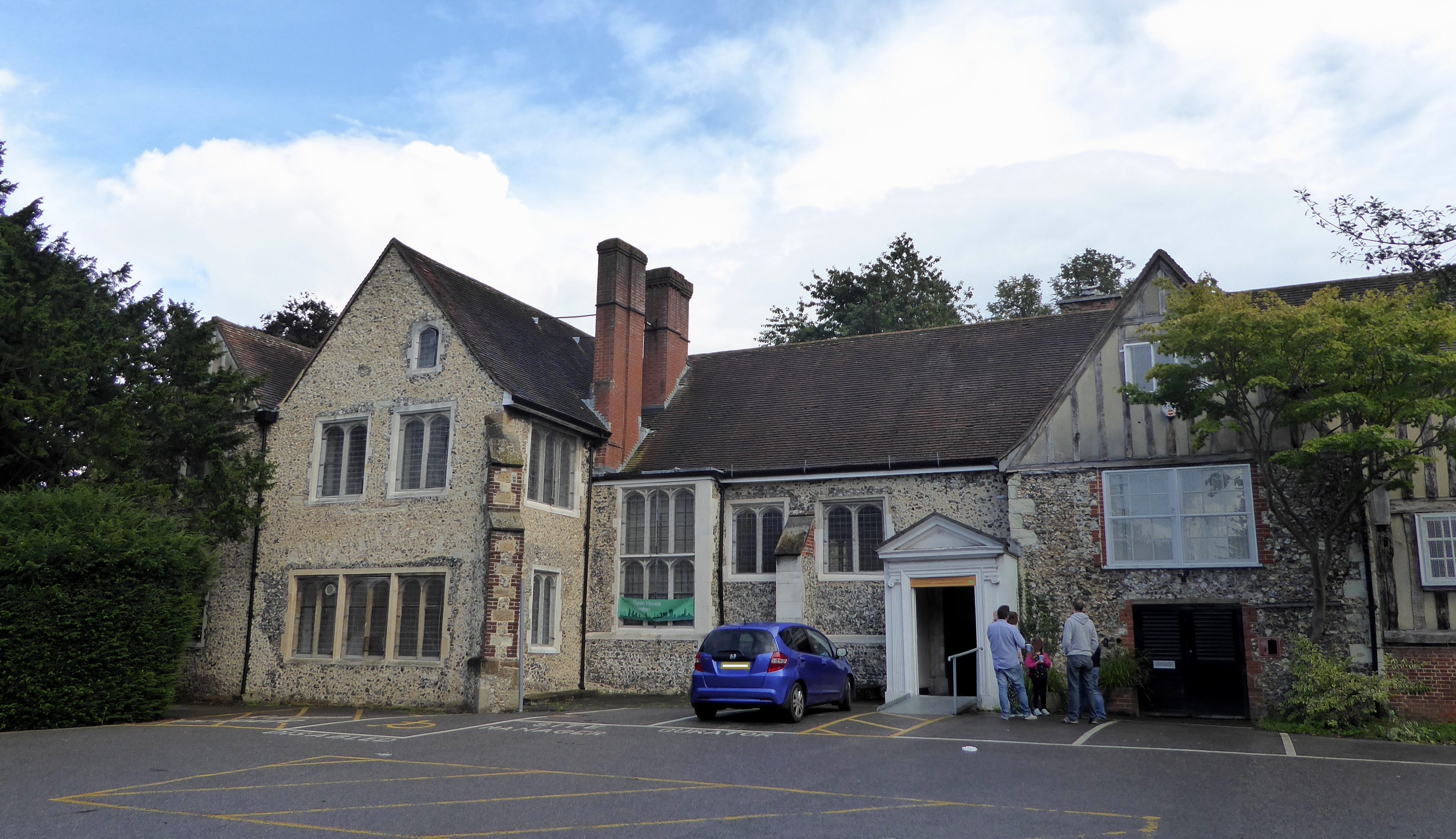 The Old Priory at Orpington, southeast London.